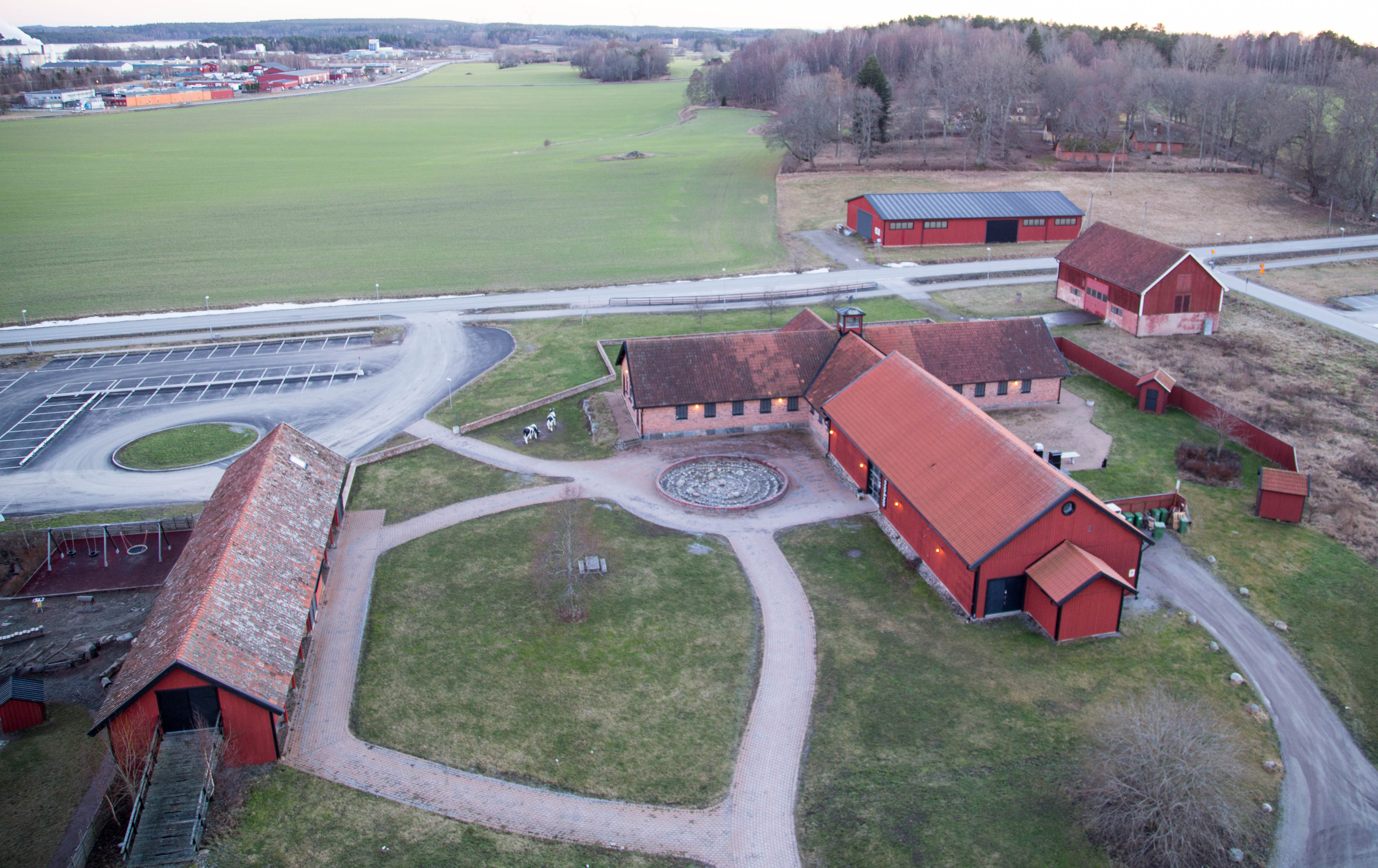 Åberg museum, Sweden